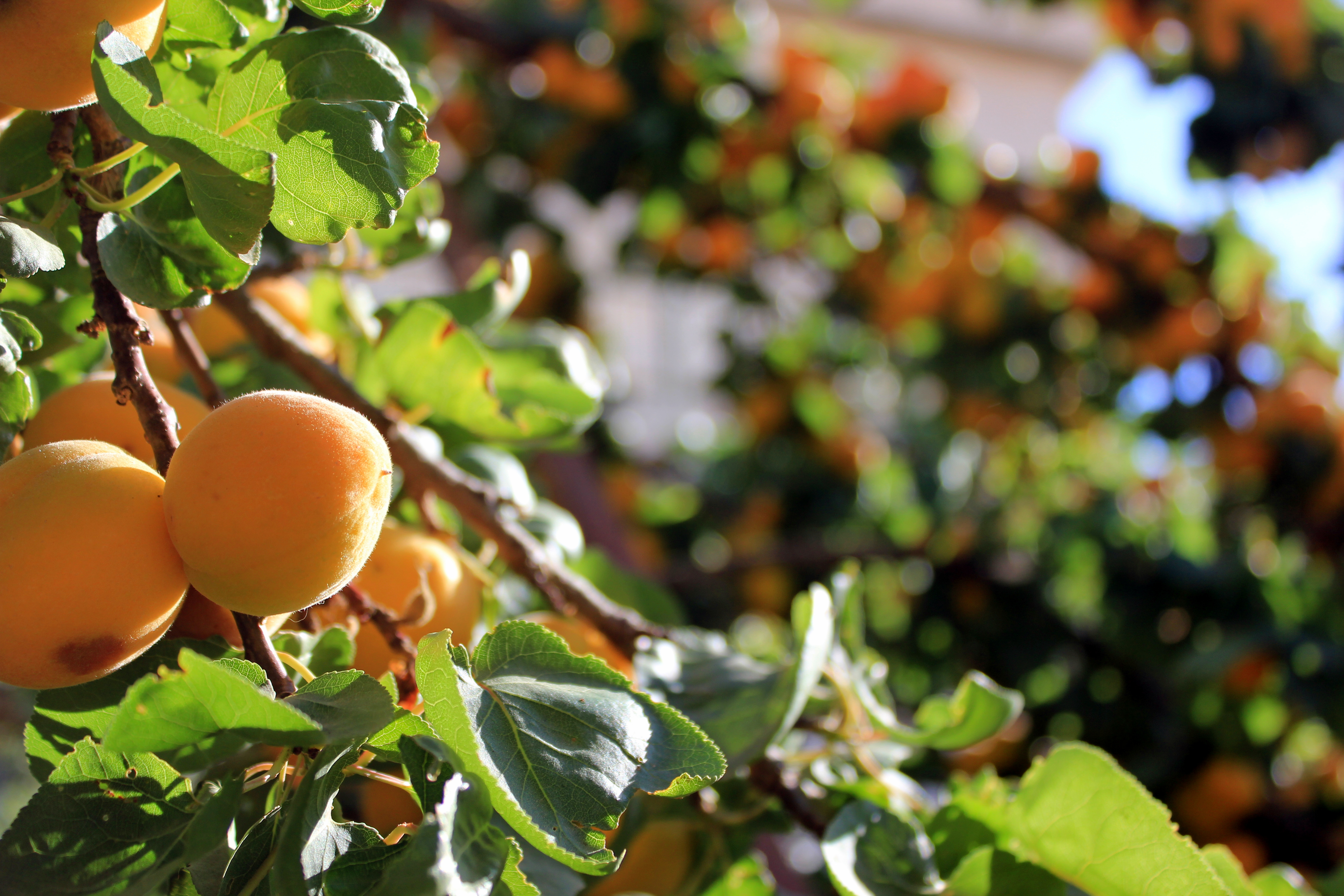 Israel Flora of Israel